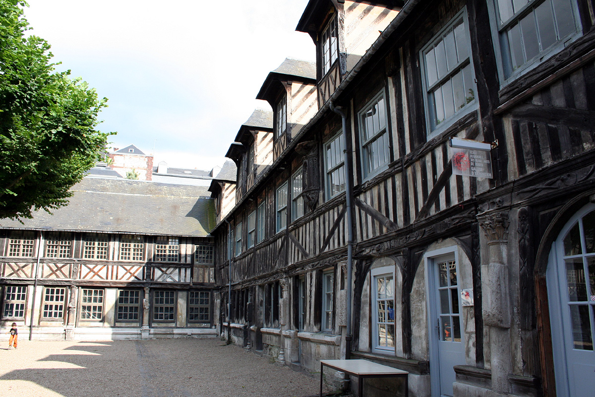 Rouen, the fine arts school, located in an ancient leper colony.